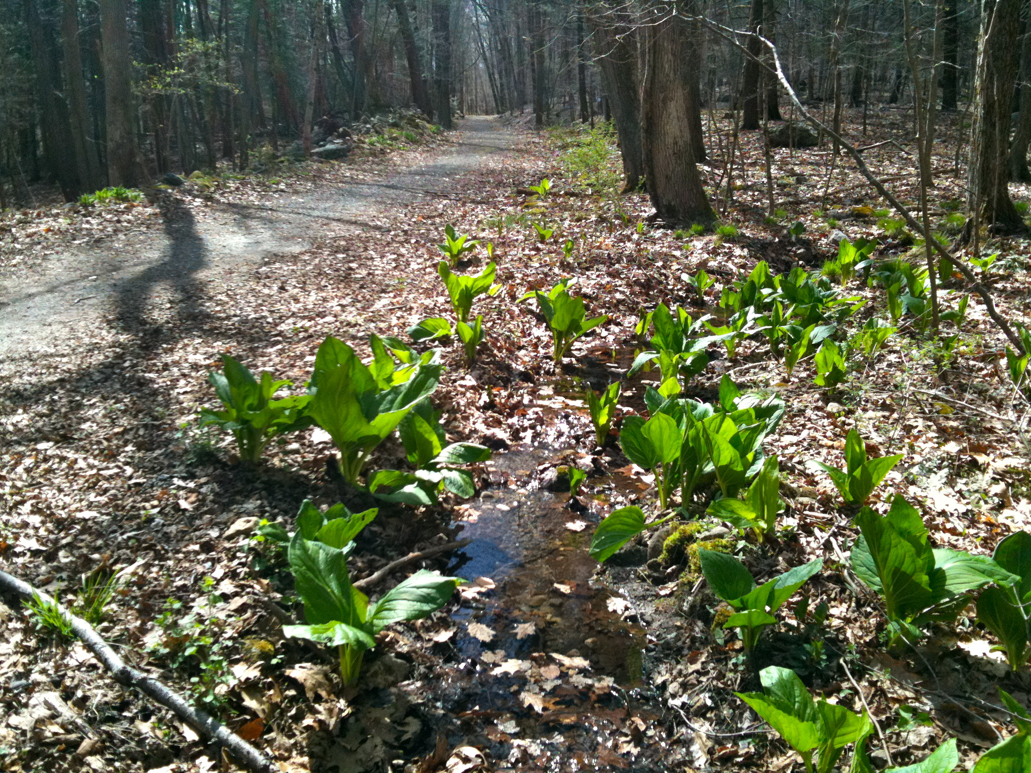 Aspetuck Valley Trail. Blue-Blazed CFPA foot path in Connecticut Centennial Watershed State Forest which connects to Huntington State Park at the northern terminus and which follows the Aspetuck River from Newtown, CT through Redding and Easton, CT. Aspetuck Valley Trail. Blue-Blazed CFPA foot path in Connecticut Centennial Watershed State Forest which connects to Huntington State Park at the northern terminus and which follows the Aspetuck River from Newtown, CT through Redding and Easton, CT.